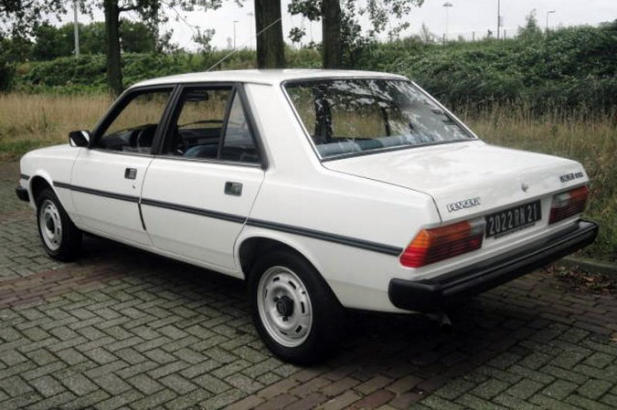 Rear view of 1982 Peugeot 305 GR (chassis code 581A21). This was the last year of the pre-facelift version.